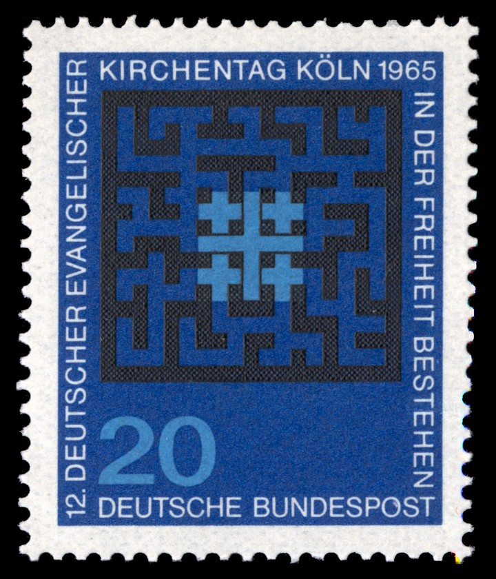 12th Protestant church congress 1965